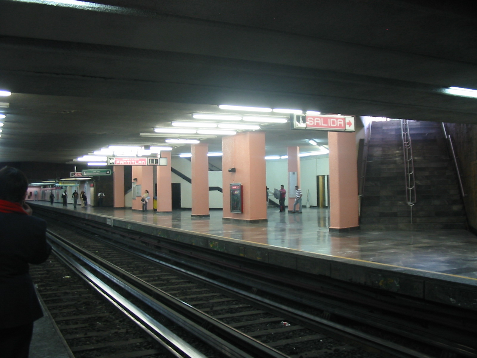 Platform photo facing towards Pantitlan (westbound)